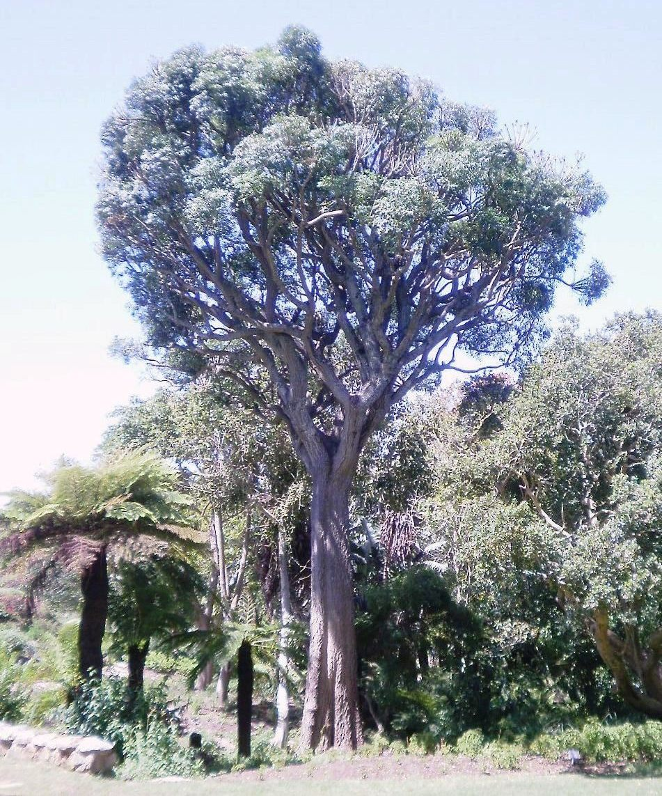 Photo of South African Cabbage tree - Cussonia spicata. Cape Town.